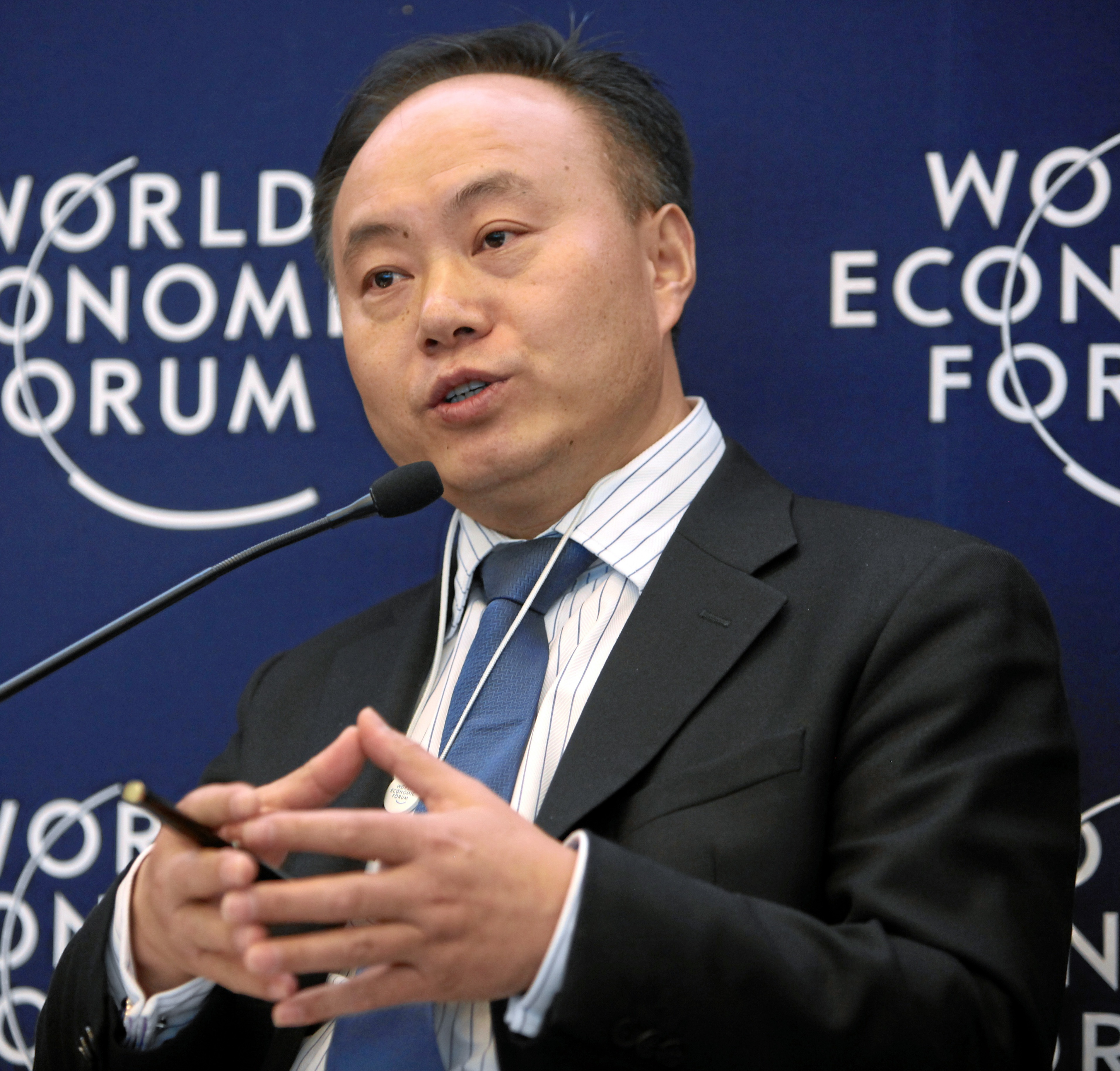 DAVOS/SWITZERLAND, 28JAN12 - Shi Zhengrong, Chairman and Chief Executive Officer, Suntech Power, People's Republic of China is captured during the session 'Sustainability Champions' at the Annual Meeting 2012 of the World Economic Forum at the congress center in Davos, Switzerland, January 28, 2012. Copyright by World Economic Forum by Monika Flueckiger